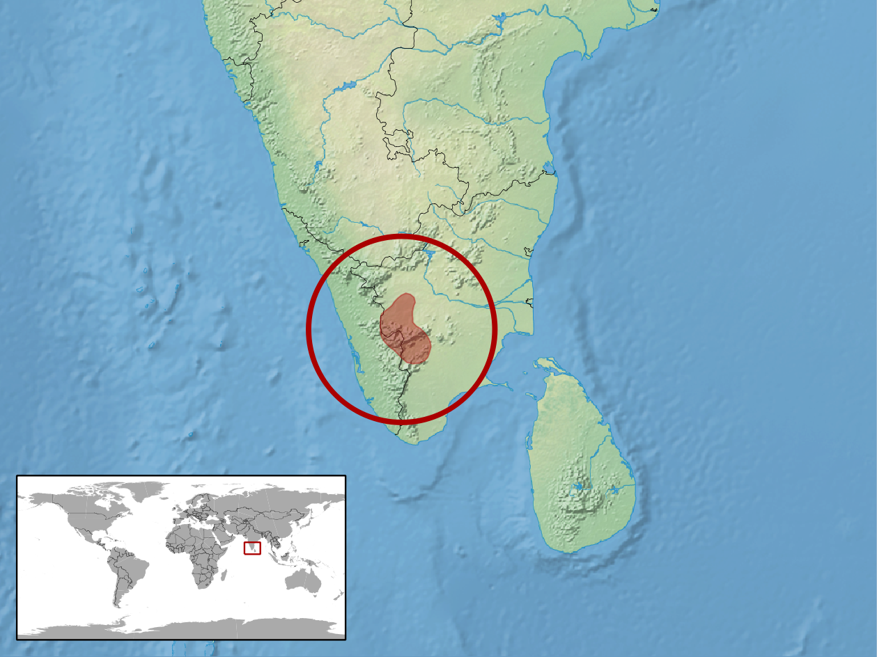 geographic distribution of Ristella rurkii